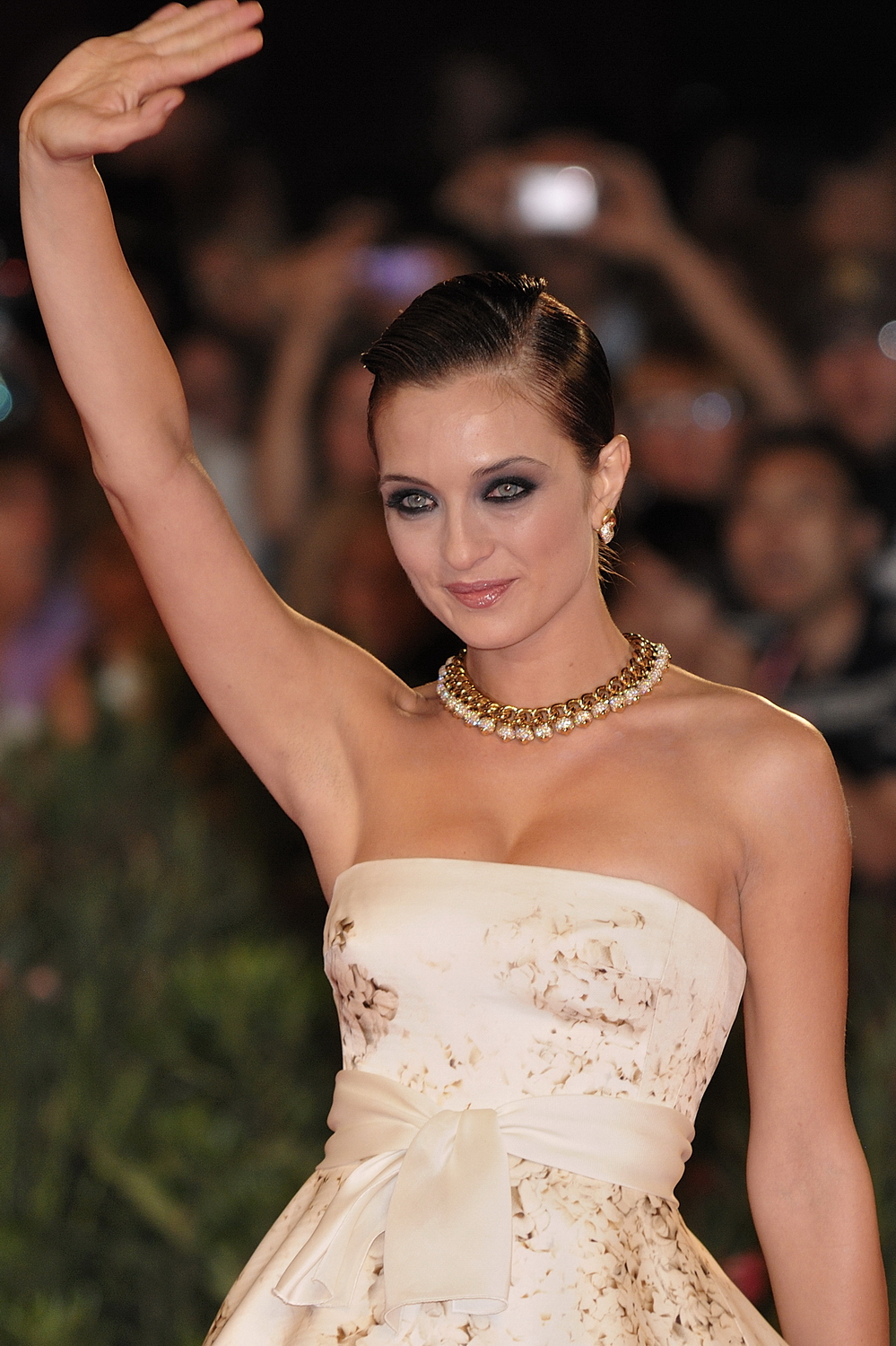 Carolina Crescentini at 2009 Venice Film Festival